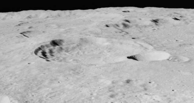 Oblique view of Thebit crater, on the moon, facing south.